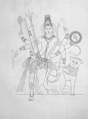 A derivative work on the following image available on wikimedia commons: 1853 sketch of Durga Mahishasura mardini in 6th century Ravana Phadi Hindu cave temple, Aihole Karnataka.jpg From the source, above file: Pen-and-ink and wash drawing of a sculpture of Mahishamardini from the Ravana Phadi Cave at Aihole, by an Indian draftsman, dated 1853. The main figure depicted in this drawing is the goddess Mahishamardini, slaying the buffalo-demon. This large sculpture panel is situated on the right wall in the antechamber to the shrine of the Ravana Phadi cave at Aihole, excavated in the late sixth century during the Chalukya period. The goddess is crushing under the weight of her left leg the buffalo-demon Mahisha. With the other left hand she holds the upraised head of the buffalo. She holds the trisula (trident, a Shiva iconography) and the sword in two right hands. Another right hand holds a parrot and another a chakra (Vishnu iconography). One left hand carries a conch, another a shield, another a bow and another is placed on the mouth of the demon. Her face shows her perfect composure and her youthful body is strong and vigorous. On the left of the goddess is her lion vehicle. The upper and lower sketches show elaborate conical high headdress (brocaded headwear, caps and crowns), jewelry and cultural motifs in 7th century India.